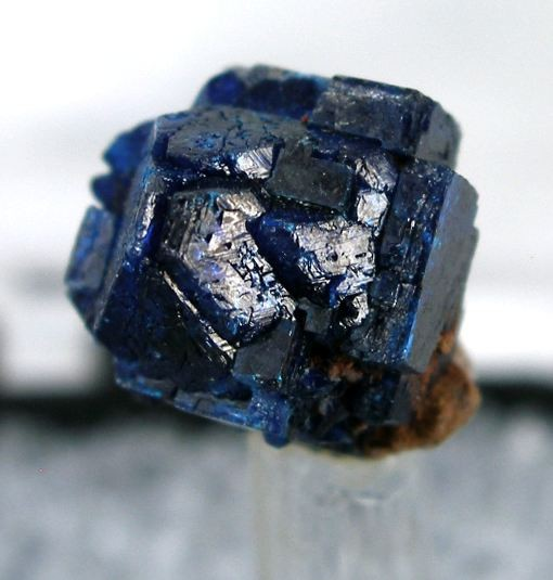 Cumengeite, Pseudoboleite, Boleite Locality: Amelia Mine, Santa Rosalía (El Boleo), Boleo District, Municipio de Mulegé, Baja California Sur, Mexico (Locality at ) Size: 0.8 x 0.8 x 0.7 cm. This is an exemplary example of the epitaxial, or oriented serial growth, of these rare species one upon the other, with sharp form and good color as well. The Cumengeite is the sharp, pyramidal-like outgrowth popping out of one face of the central cube. All of the steppes upon the original simple cube of Boleite are in fact the related species Pseudoboleite. Thick Pseudoboleite epitaxially overgrew the Boleite cube, showing quite clearly even to the naked eye. Interestingly, only boleite is a silver species - the other two have no silver content. The crystals of all 3 species from this, the type locality, remain the best known by an order of magnitude, still today 100 and more years later. Ex. Dick Jones Collection.